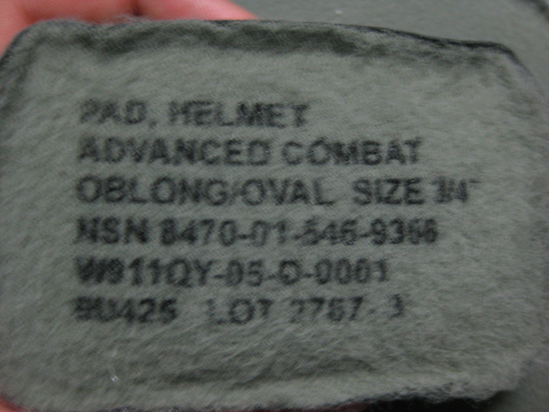 NSN in the ACH's PAD.